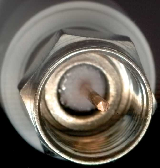 Male F connector